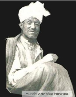 Silk route trader